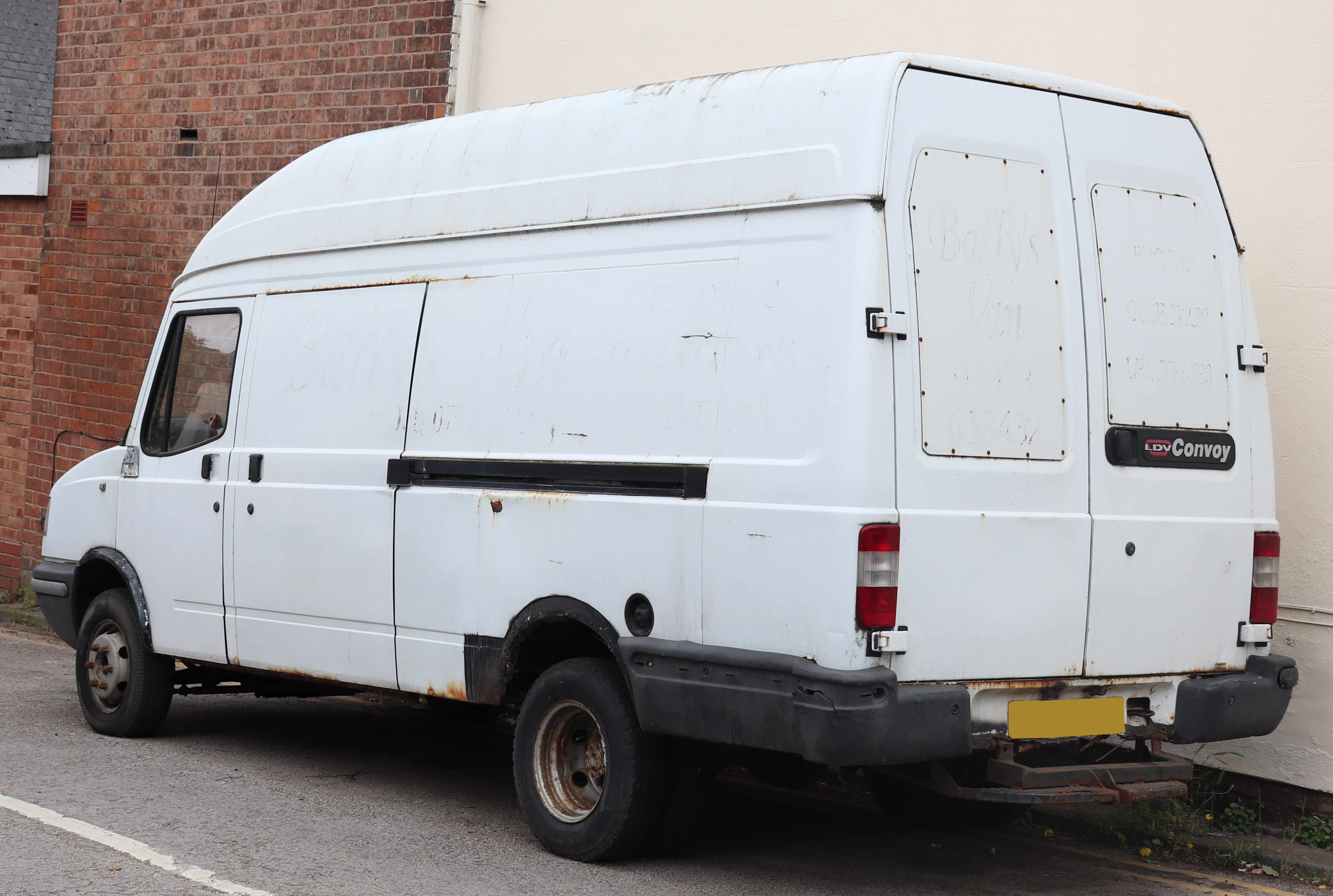 2004 LDV 400 Convoy Diesel LWB 2.4 Rear Taken in Leamington Spa